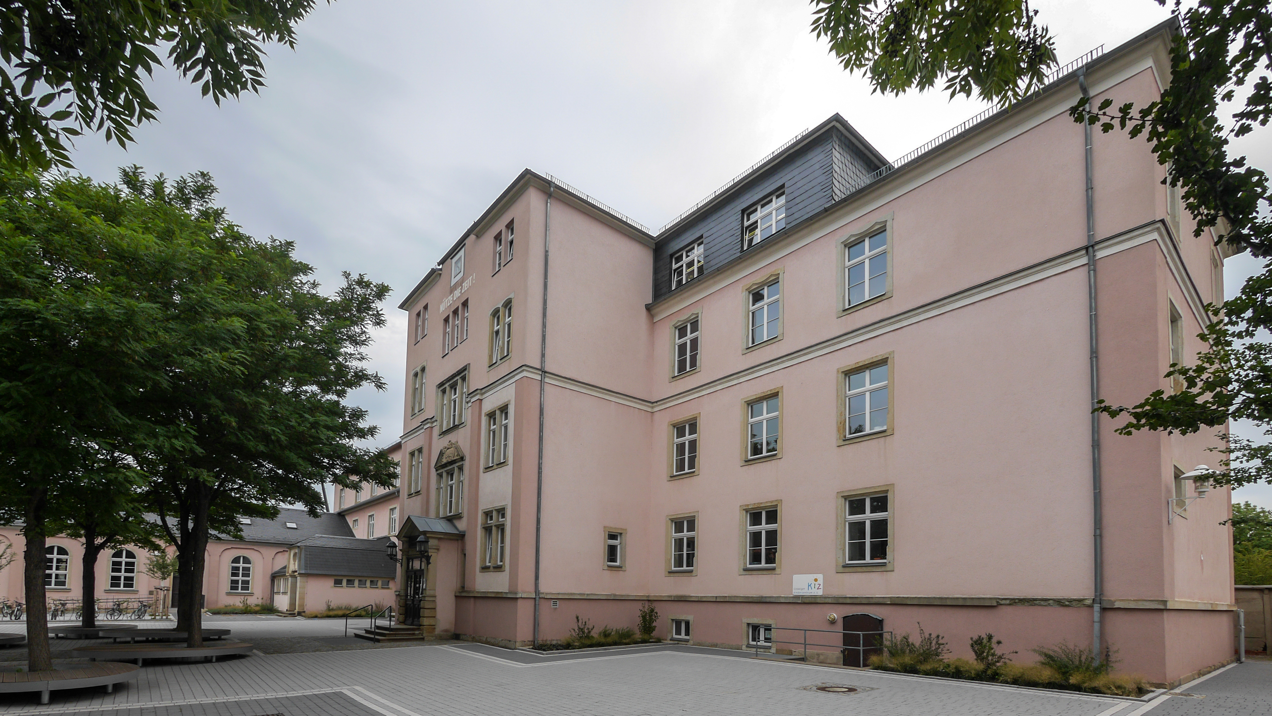 Coswig Hauptstraße 6; 8 1. Grundschule Coswig; Leonhard-Frank-Schule IV